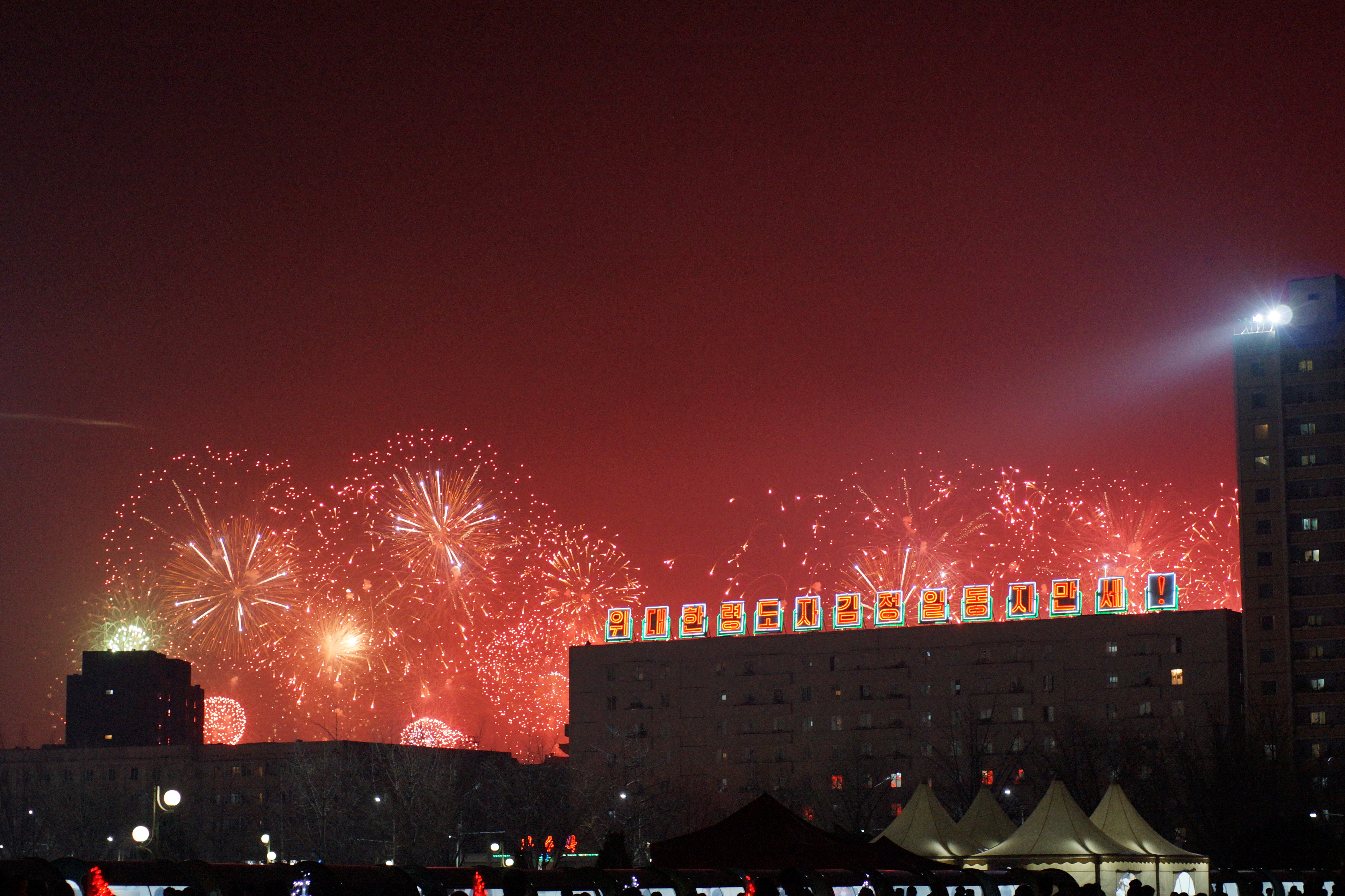 April 2012 trip to DPRK, North Korea for the 100th year birthday celebrations for Kim Il Sung - check out my North Korea blog at